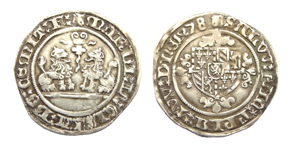 Flanders, double briquet, struck in 1478 under Mary of Burgundy. Two lions rampant combatant, fire-steel (briquet) above. Shield of Burgundy over floriated cross.